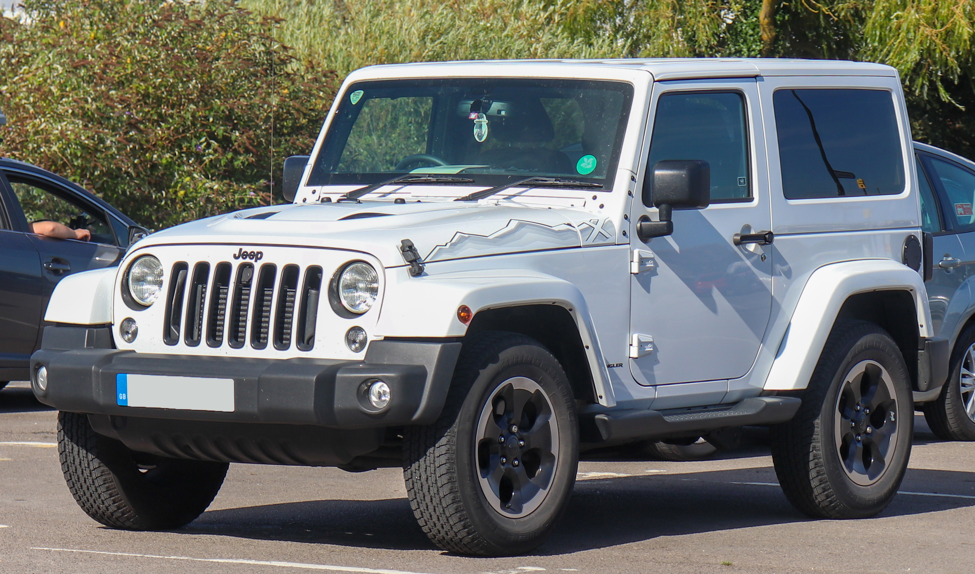 2015 Jeep Wrangler X CRD Automatic 2.8 Front Taken in Weymouth, Dorset